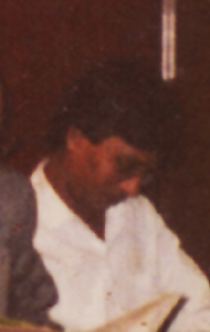 On the occasion of Chattagram Sangskriti Kendro (চট্টগ্রাম সংস্কৃতি কেন্দ্র) 1st Farrukh Memorial Award 1991 (From right to left) Poet Mayukh Chowdhury, Poet Al Mahmood, Awarded Personnel Abdul Mannan Syed, Artist Sabih Ul Alam, CSK President Amirul Islam and Rhymists Muhammad Nasir Uddin are seen on the stage.